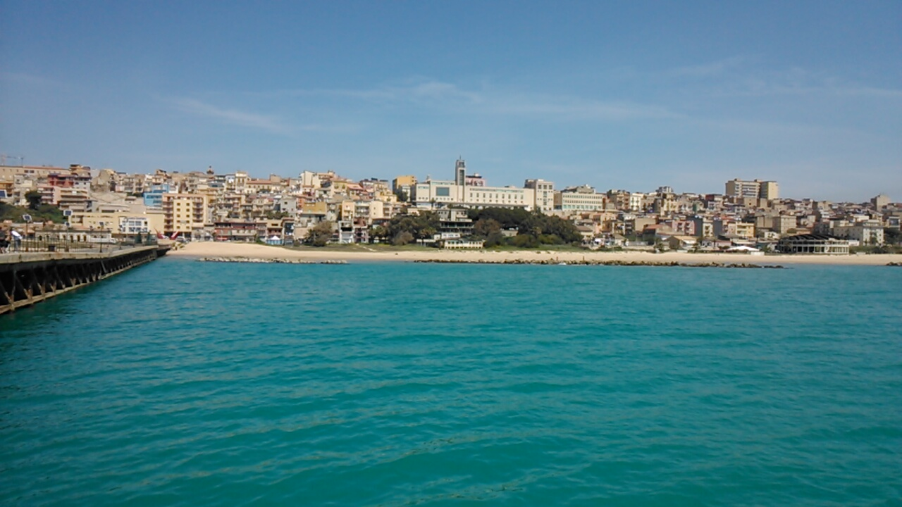 Gela town by the sea